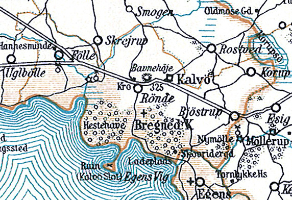 Map of Bregnet Sogn in Øster Lisbjerg Herred in the south-western part of Randers County in Denmark